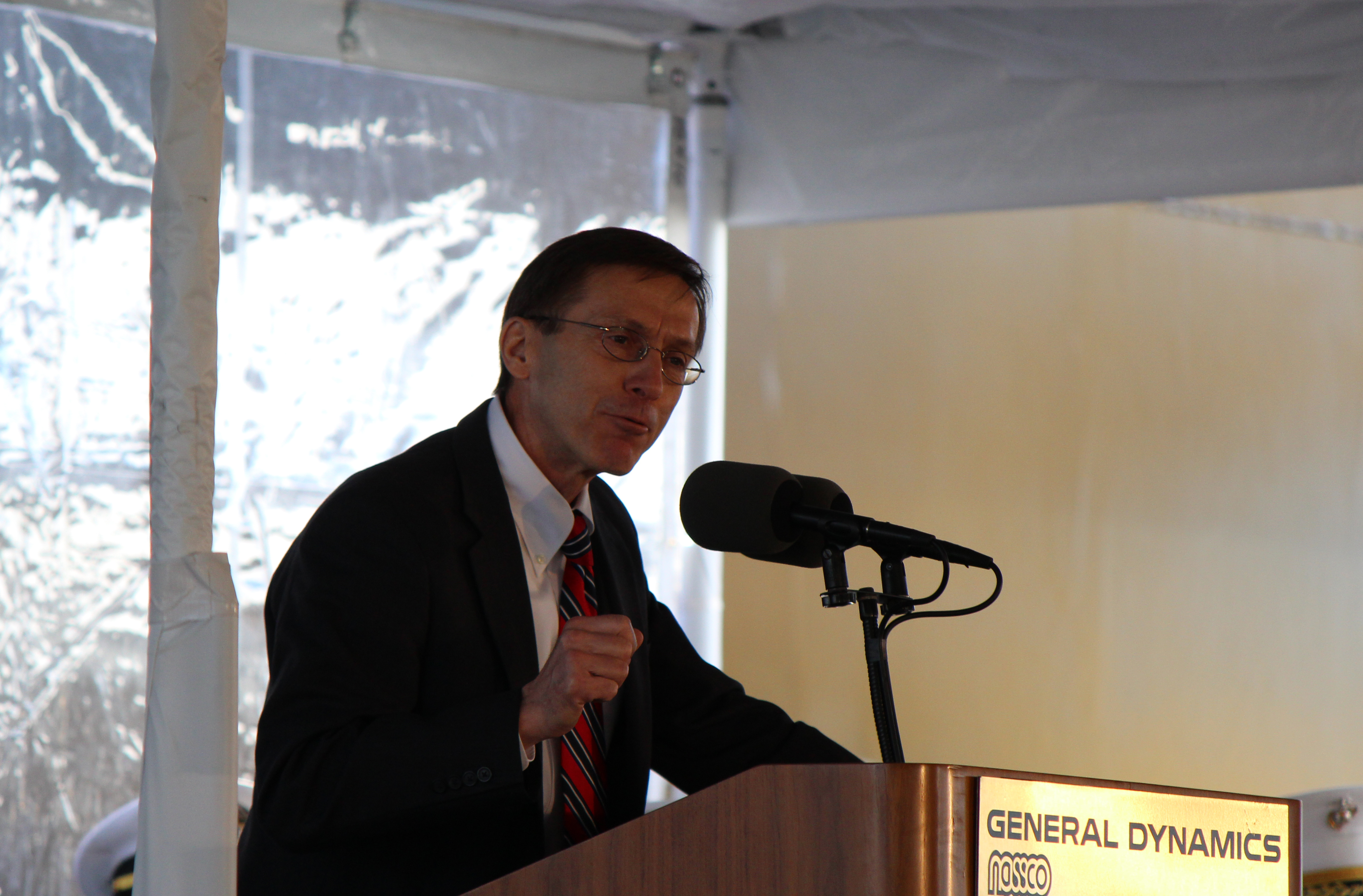 Assistant Secretary of the Navy for Research, Development and Acquisition Sean Stackley speaking at the christening of USNS John Glenn (T-MLP 2) at the NASSCO shipyard in San Diego, California.